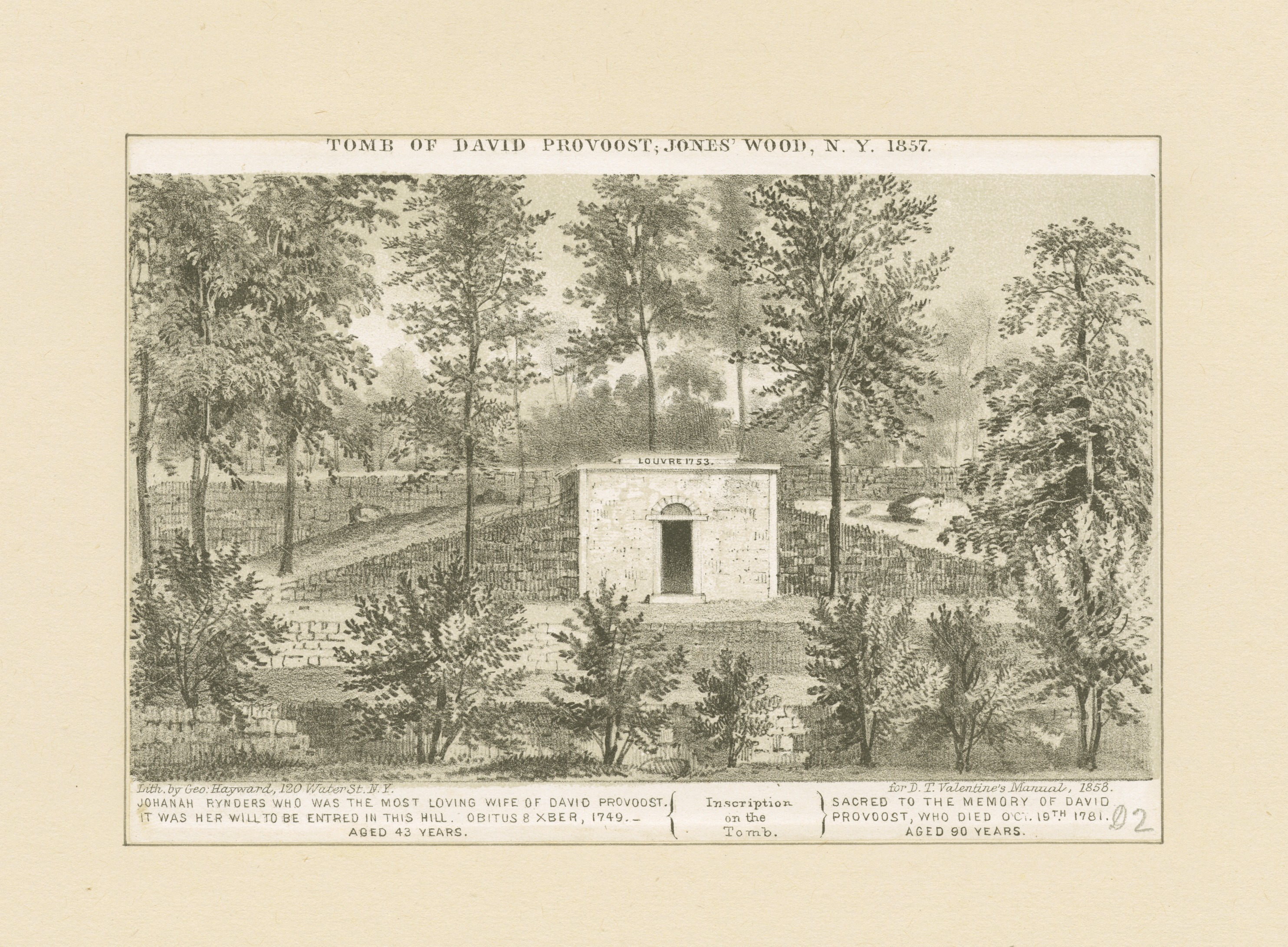 Includes photomechanical reproductions. Title from Calendar of Emmet Collection. EM10706